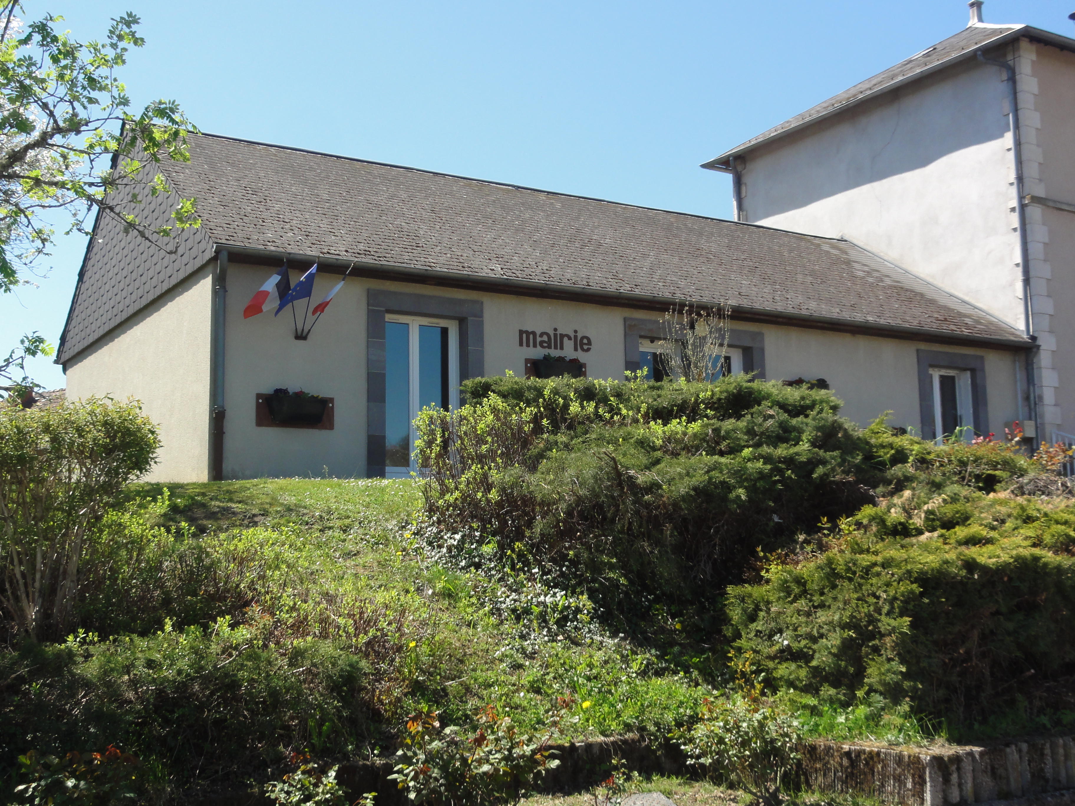 Youx (Puy-de-Dôme) mairie